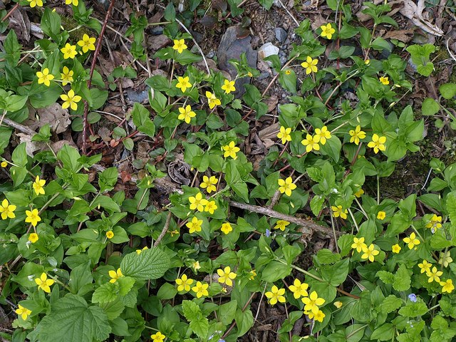 Yellow Pimpernel Lysimachia nemorum growing beside Ilsington Footpath 37 next to Penn Wood in Devon, Great Britain.